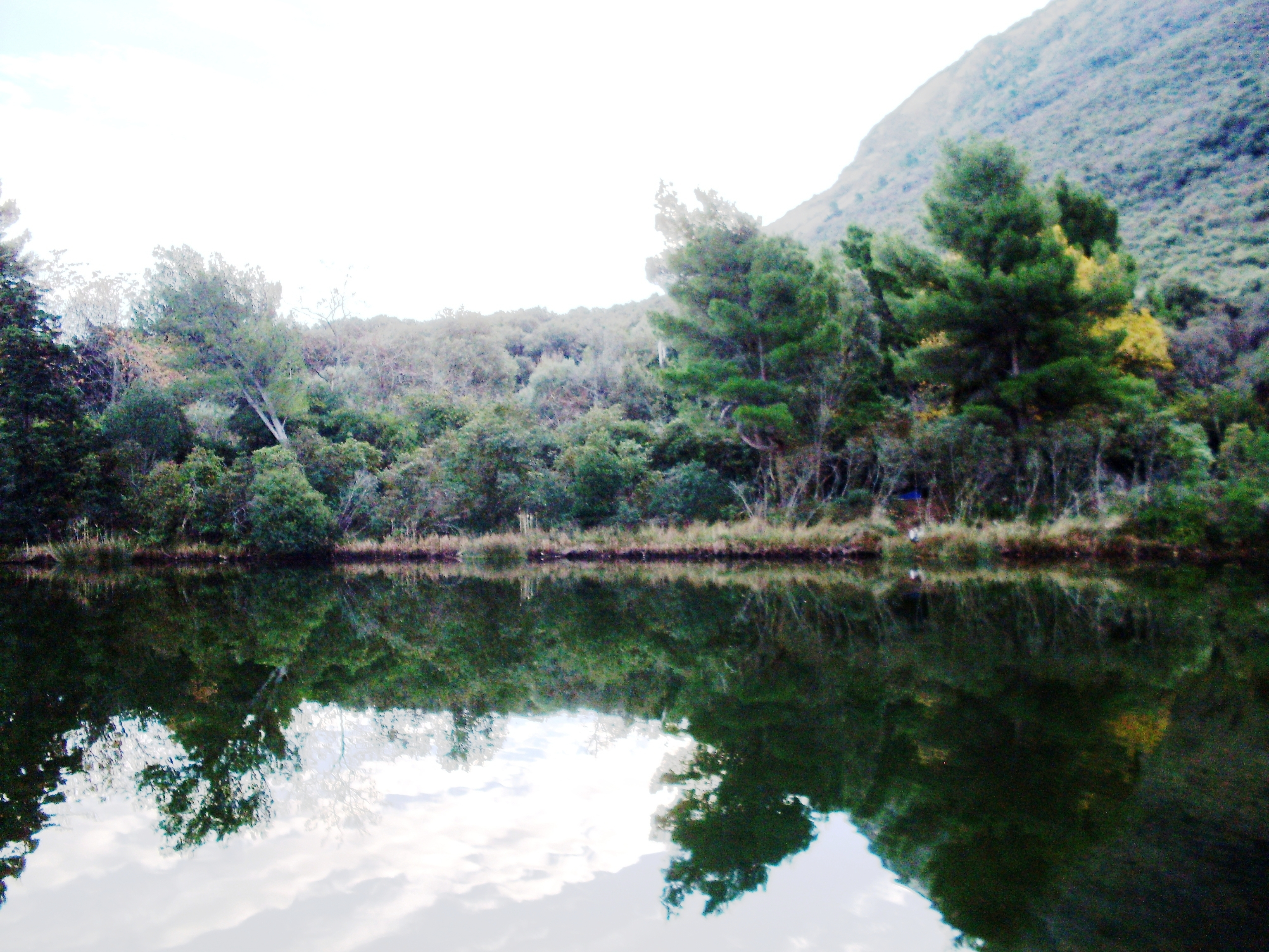 Italy Ancona Portonovo - small deep lake